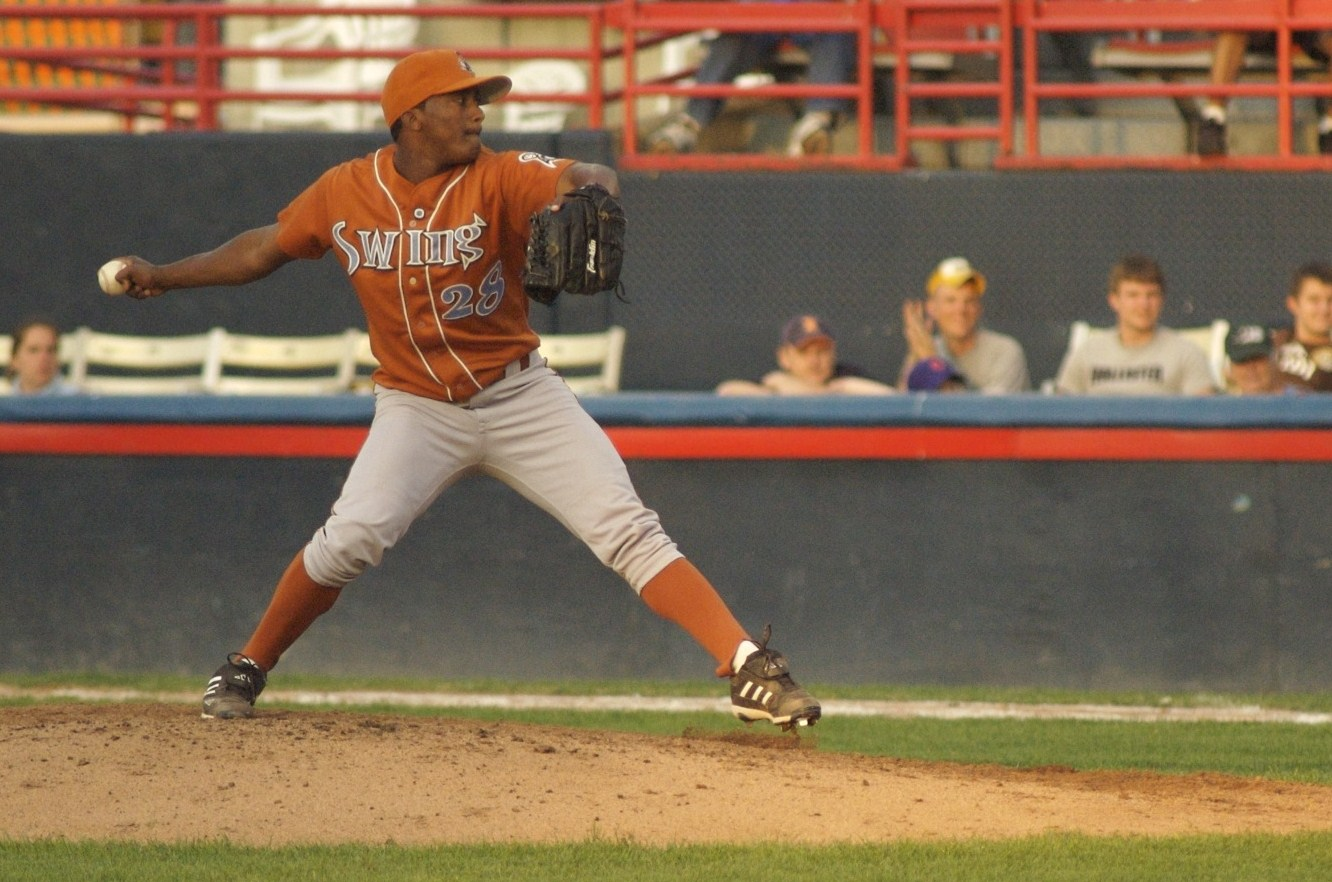 Víctor Moreno in 2006.